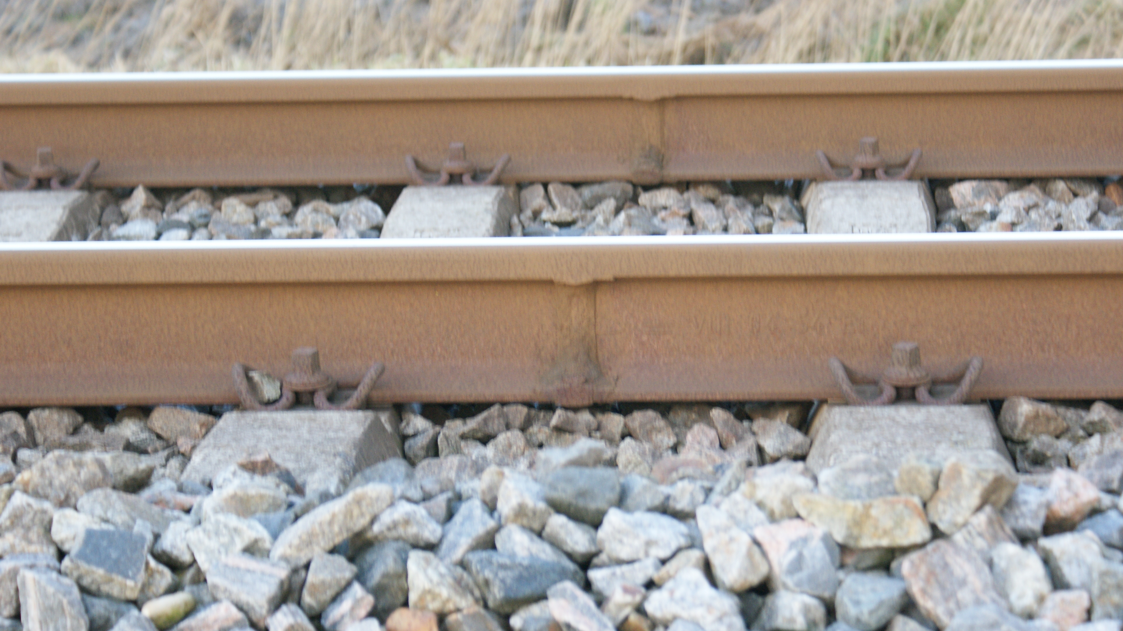 A welding in the rails between Groningen and Delfzijl in the Netherlands